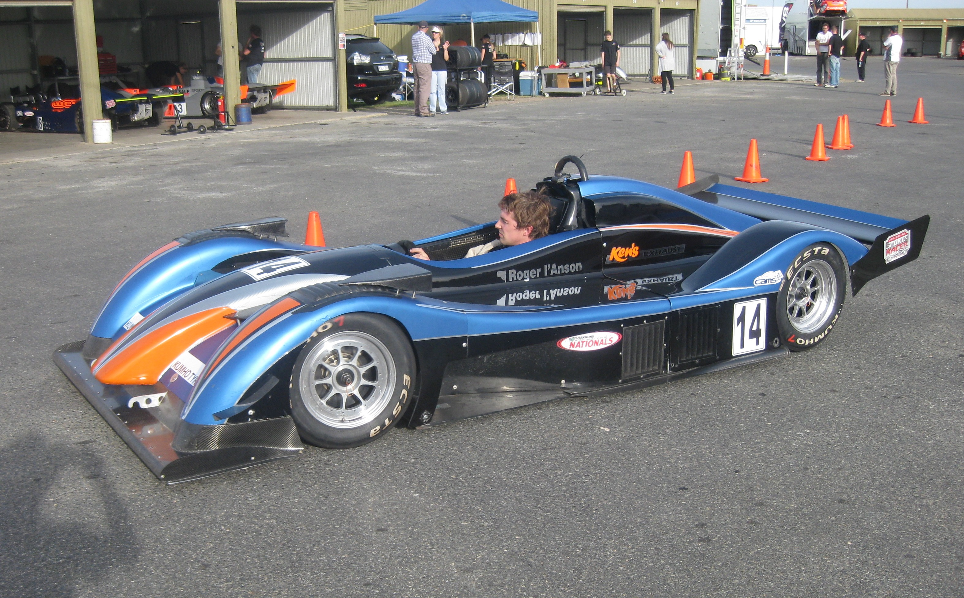 The West WR1000 of Roger I'Anson at Mallala Motor Sport Park on 27 April 2014